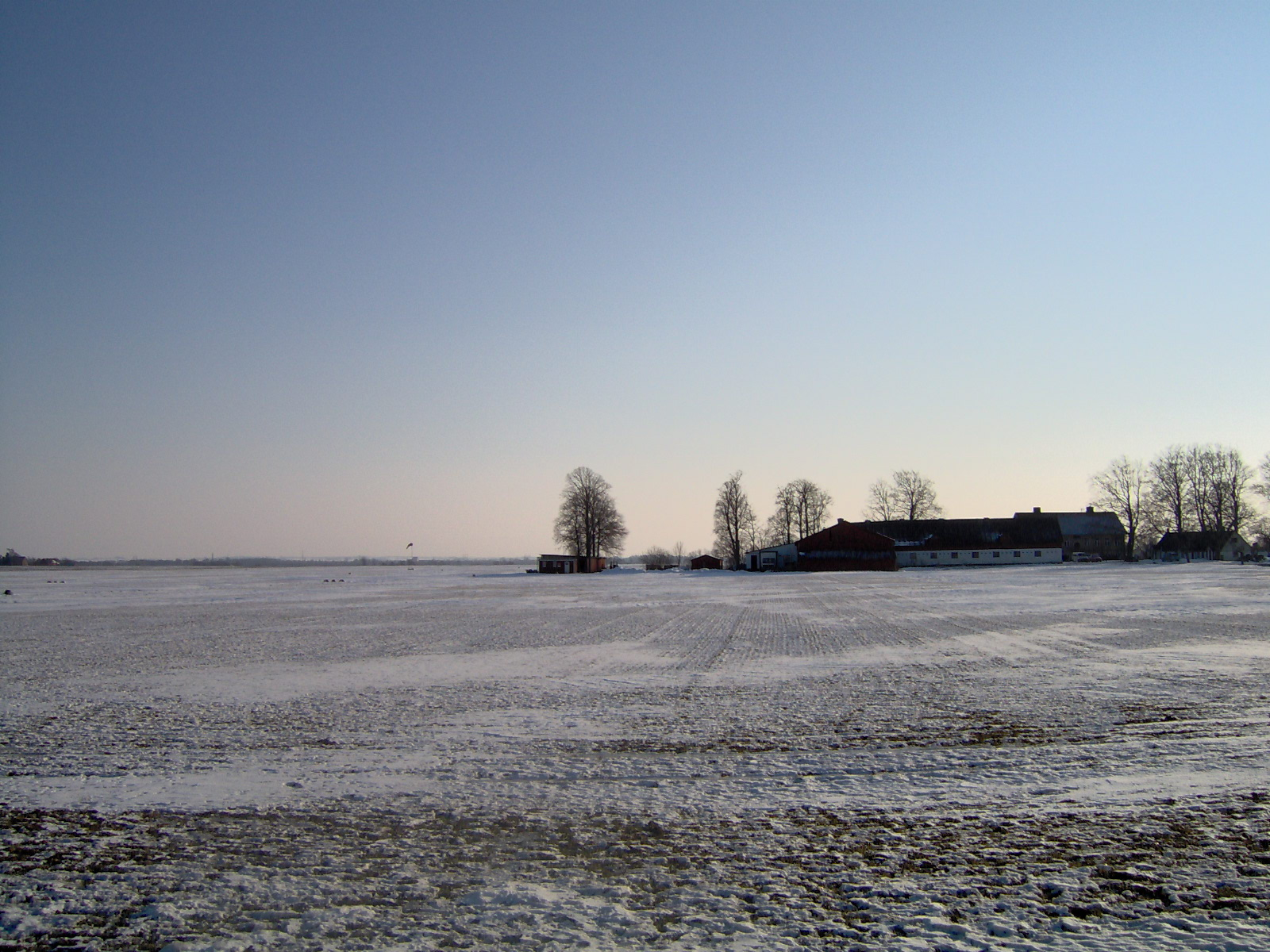 Hasslanda airfield, Lund, taken by Andreas Vilén, March 6th 2005